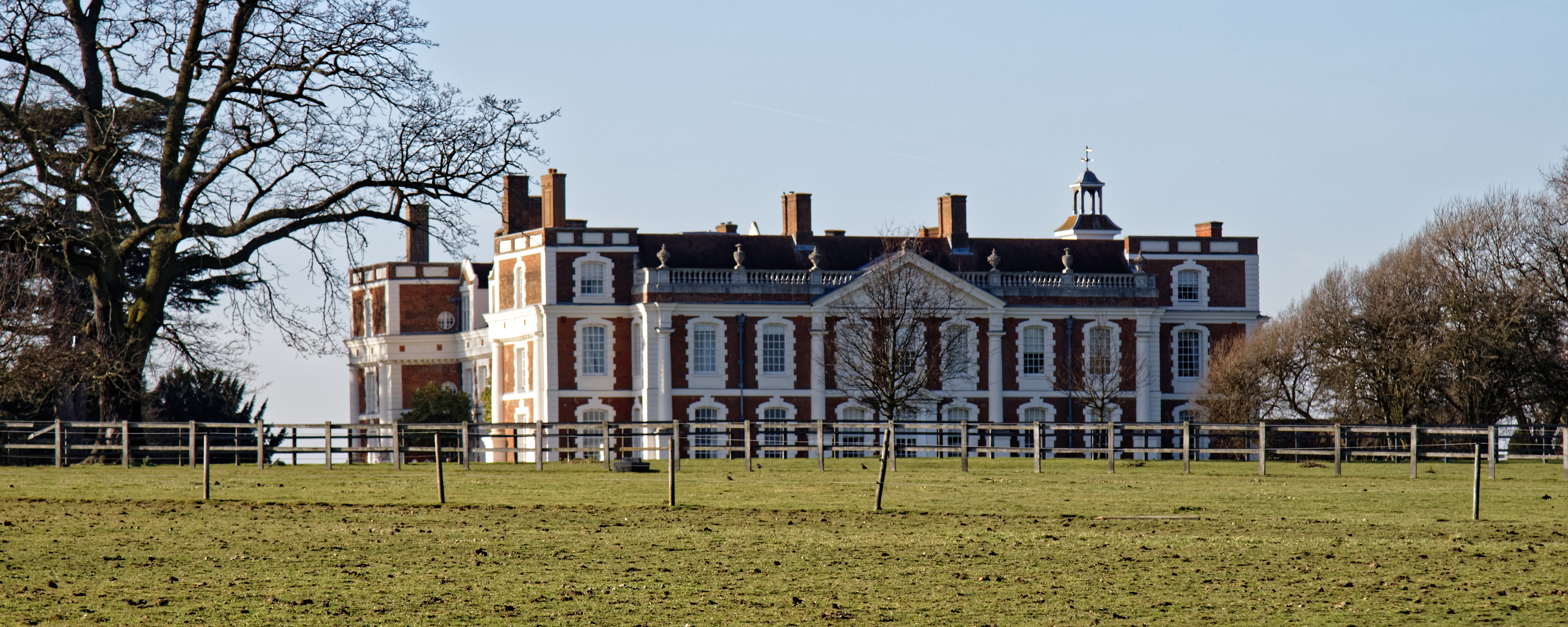 Hill Hall Grade I listed house in Theydon Mount, Essex, England.Mobile device view: Wikimedia (as at 2019) makes it difficult to immediately view photo groups related to this image. To see its most relevant allied photos, click on Theydon Mount, and this uploader's Buildings. You can add a beta click-through 'categories' button to the very bottom of photo-pages you view by going to settings... three-bar icon top left.Desktop view: Wikimedia (as at 2019) makes it difficult to immediately view the helpful category links where you can find images related to this one in a variety of ways; for these go to the very bottom of the page.Camera: Canon EOS 6D Mark II with Canon EF 24-105mm F4L IS USM lens.Software: RAW file lens-corrected, optimized and converted with DxO PhotoLab 2 Elite, and further optimized with Adobe Photoshop CS2.